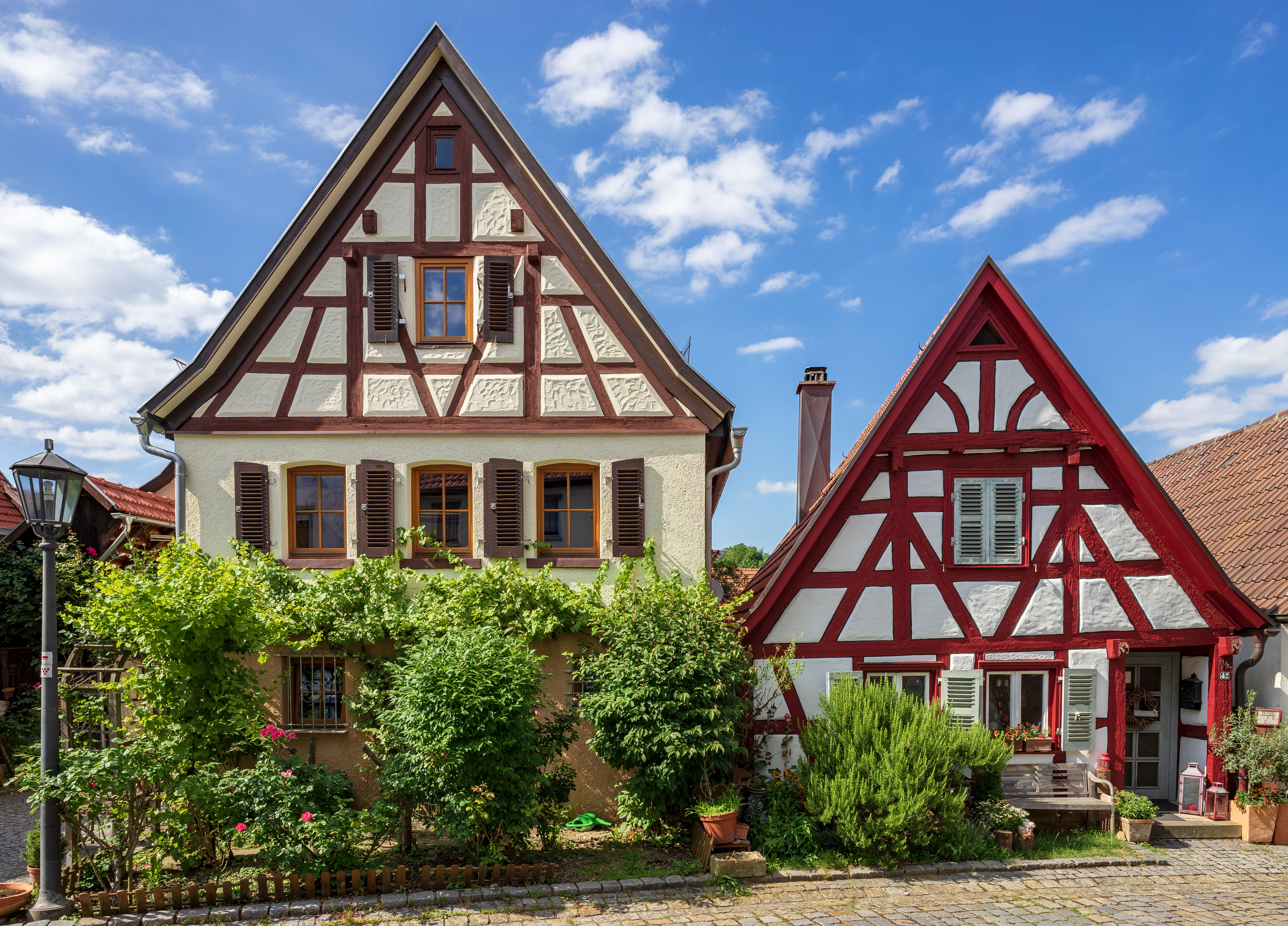 Marbach am Neckar (Germany): The timber-framed houses Mittlere Holdergasse no. 42 (right) and 44 (left). House no. 42 was built at the beginning of the 18th century and is a listed building. It was photographed here together with the neighboring house to show the original context.